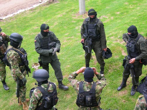 Members of Colombia's special anti-kidnapping unit, the GAULA, prepare for a demonstration during a ceremony in Sibate, Colombia. The United States turned over the GAULA training facility there to the Colombian Ministry of Defense on Dec. 6, 2007. The Bureau of Diplomatic Security, through its Antiterrorism Assistance program, provided anti-kidnapping training to Colombia's GAULA forces.The three people on the top are memberso of a GAULA from Policia Nacional and the ther people on the bottom are members of a GAULA of the military.